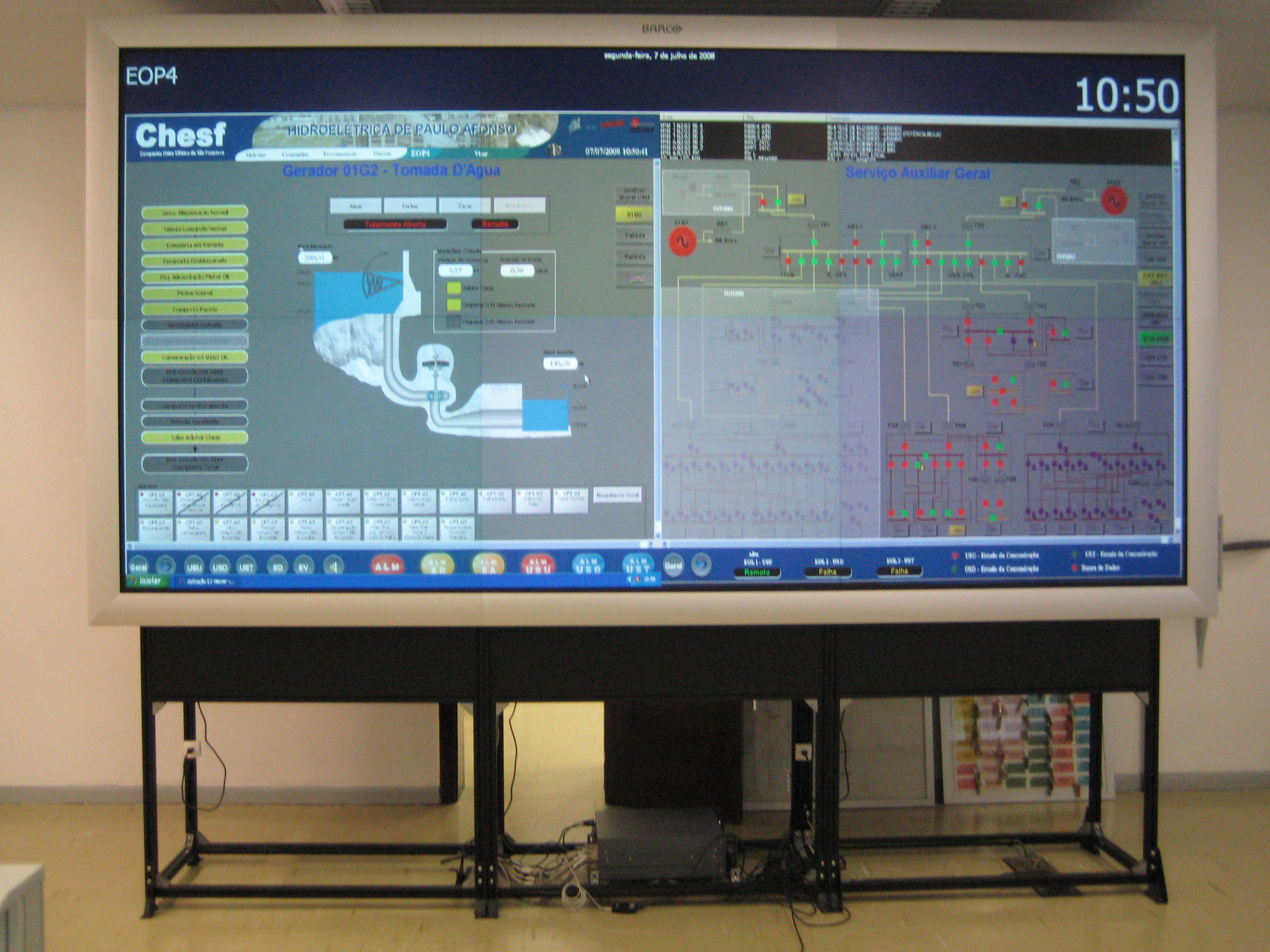 New digital control system of the hydroelectric power plant "PA I" in Paulo Afonso, Bahia, Brazil. In the future it also will control "PA III" and "PA II".